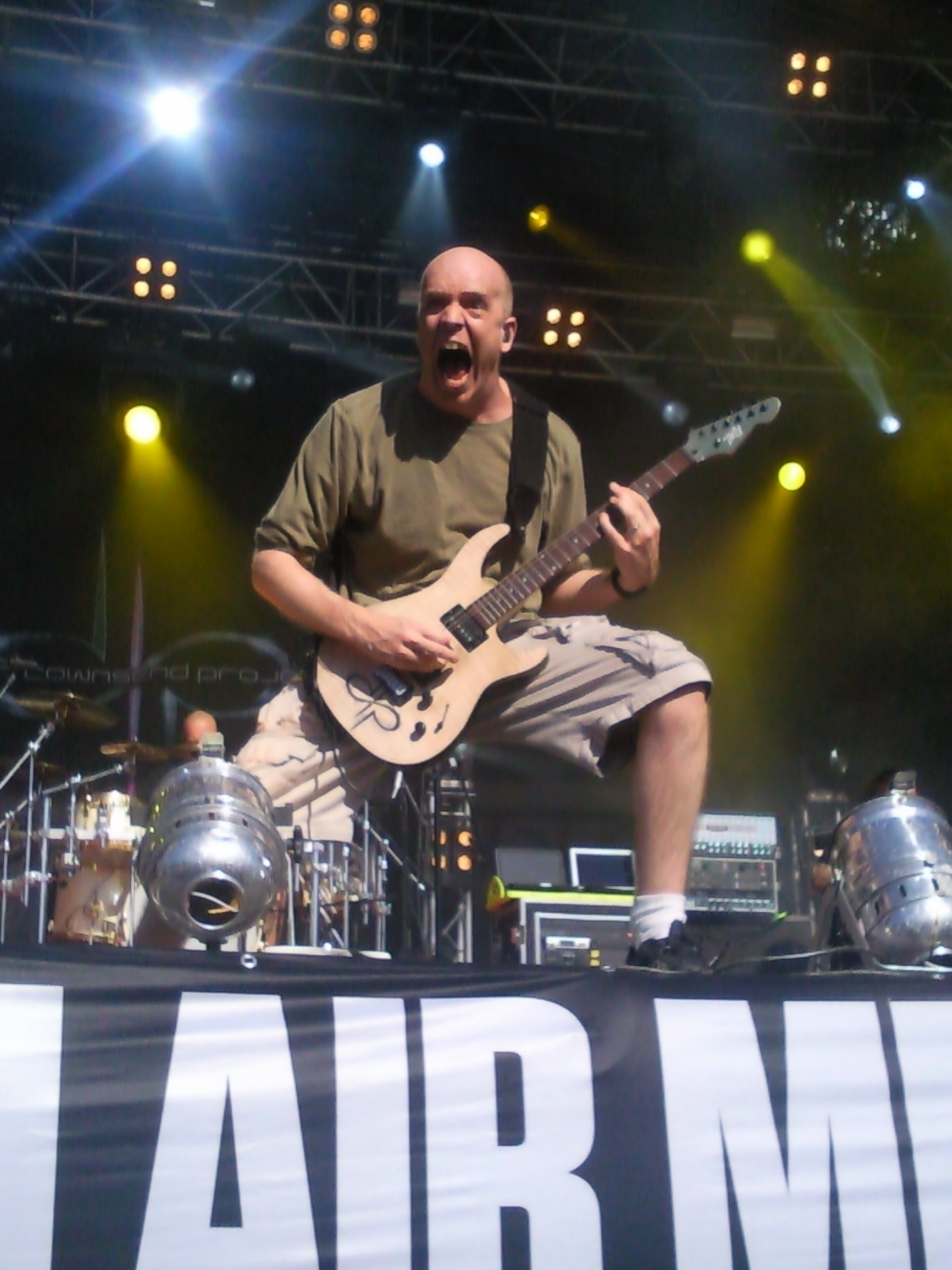 Devin Townsend performing at Tuska Metal Festival in Finland 2010